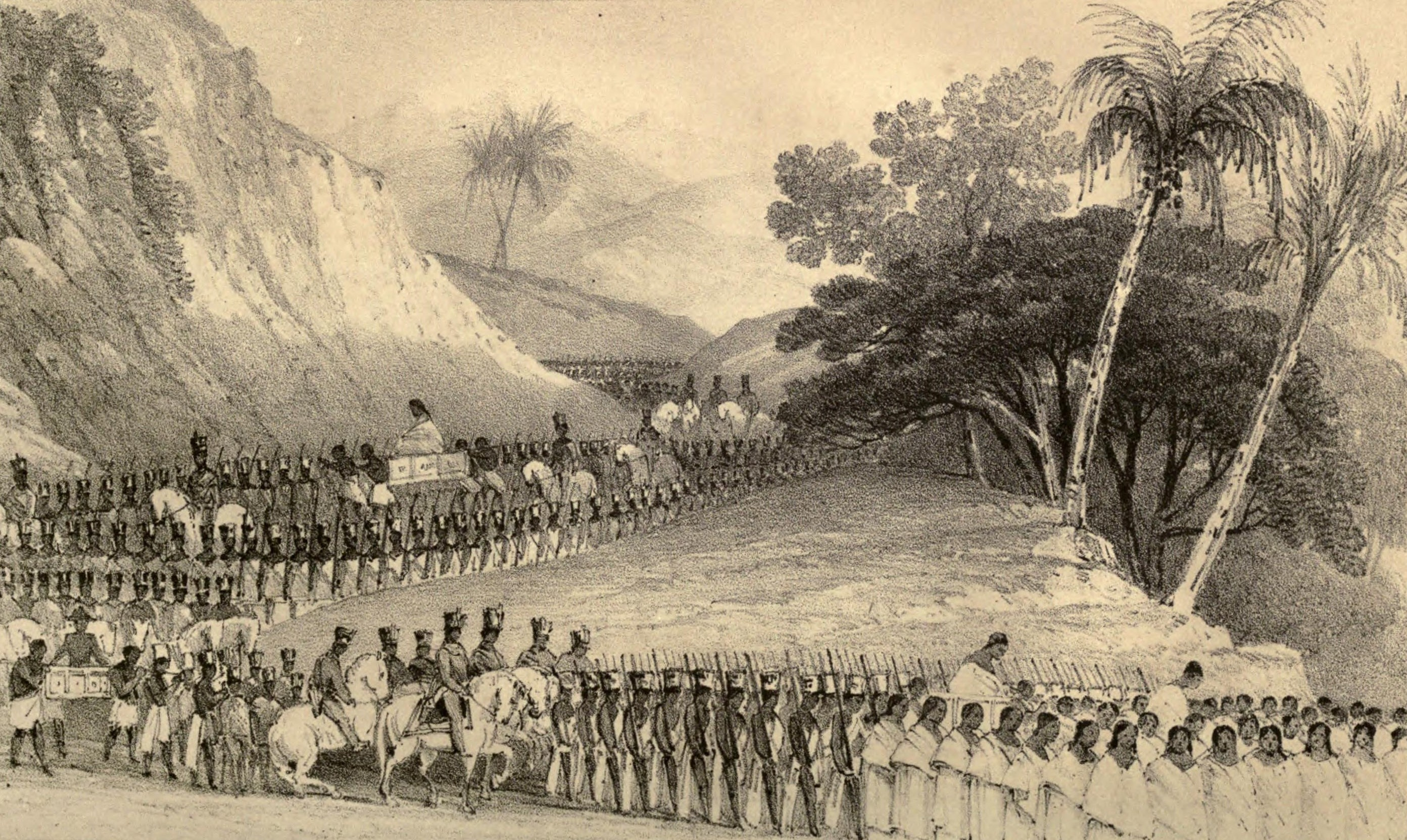 The Queen's Ordinary Style of Appearing in Public. Printed by Charles Joseph Hullmandel.